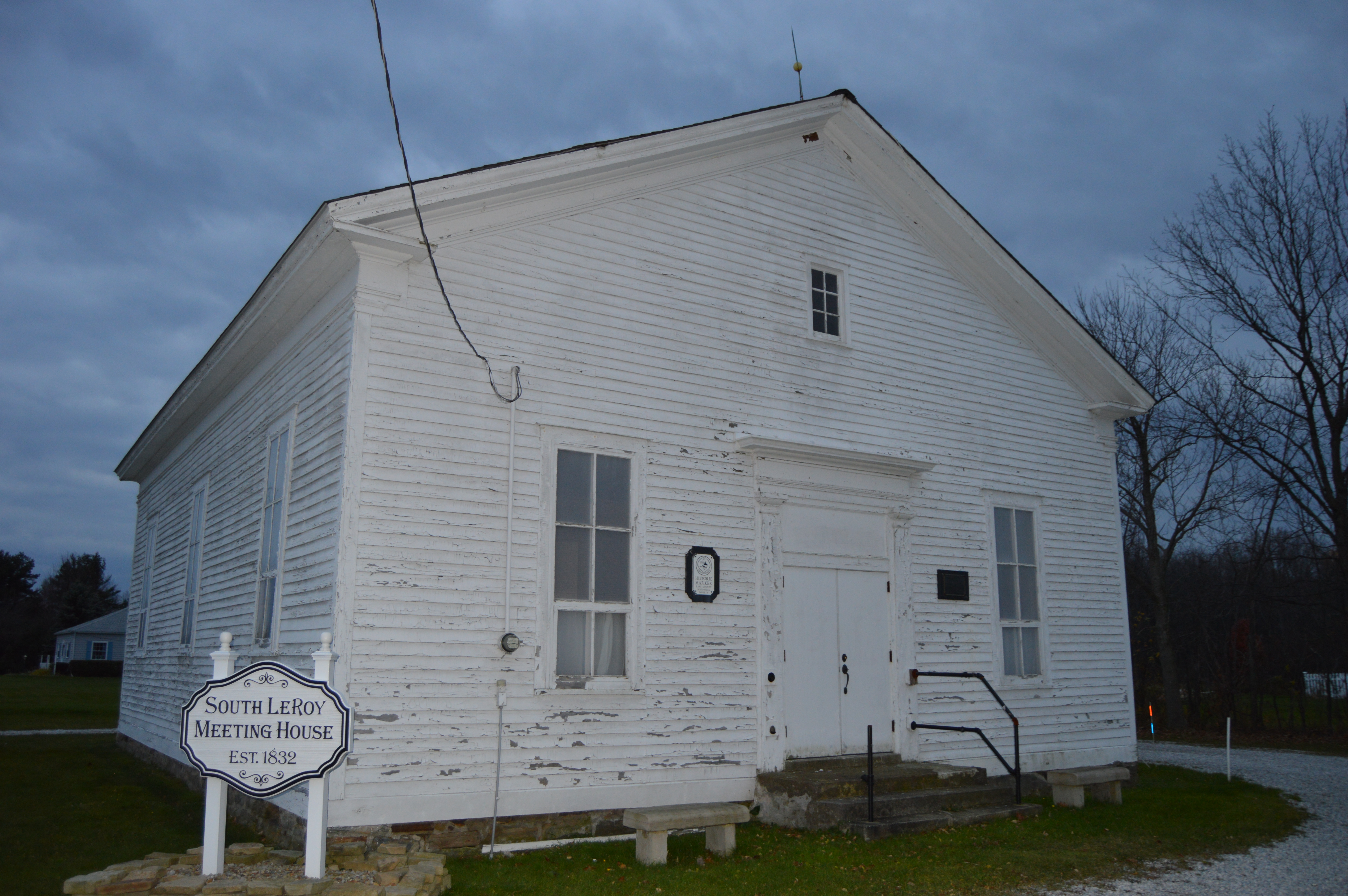 Front and eastern side of the South Leroy Meetinghouse (formerly a Methodist church), located at 13668 Painesville-Warren Road, at the junction of State Route 86 and Brakeman Road southeast of Painesville in LeRoy Township, Lake County, Ohio, United States. Built in 1832, it is listed on the National Register of Historic Places.